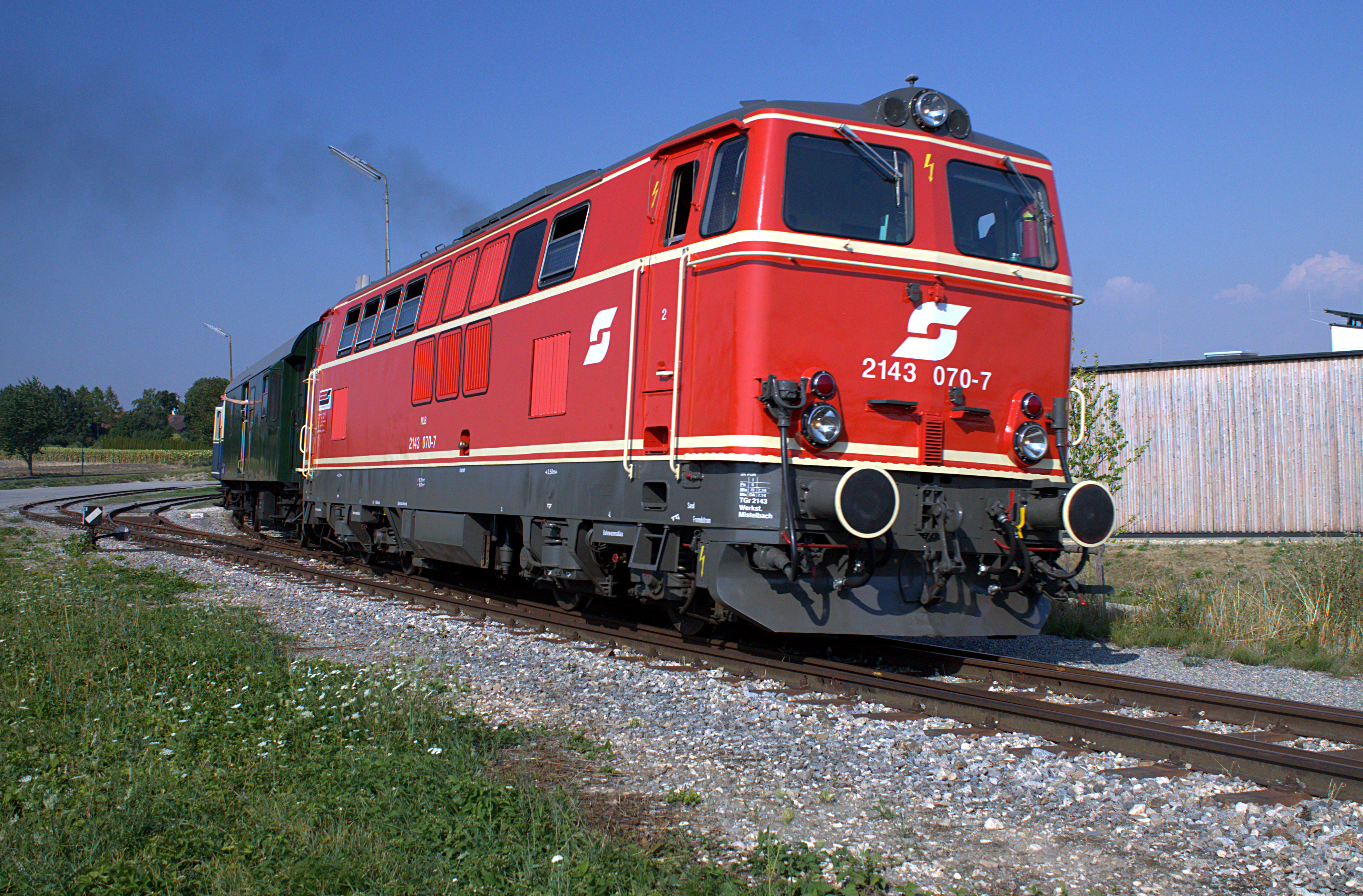 Diesel locomotive 2143 070-7 is pulling a vintage train from Ernstbrunn to Vienna Praterstern out of Ernstbrunn (Lower Austria) station.